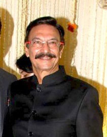 Suresh Oberoi at Vivek Oberoi's wedding reception